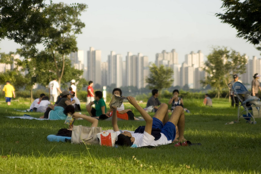 A typical evening in han river park, seoul.